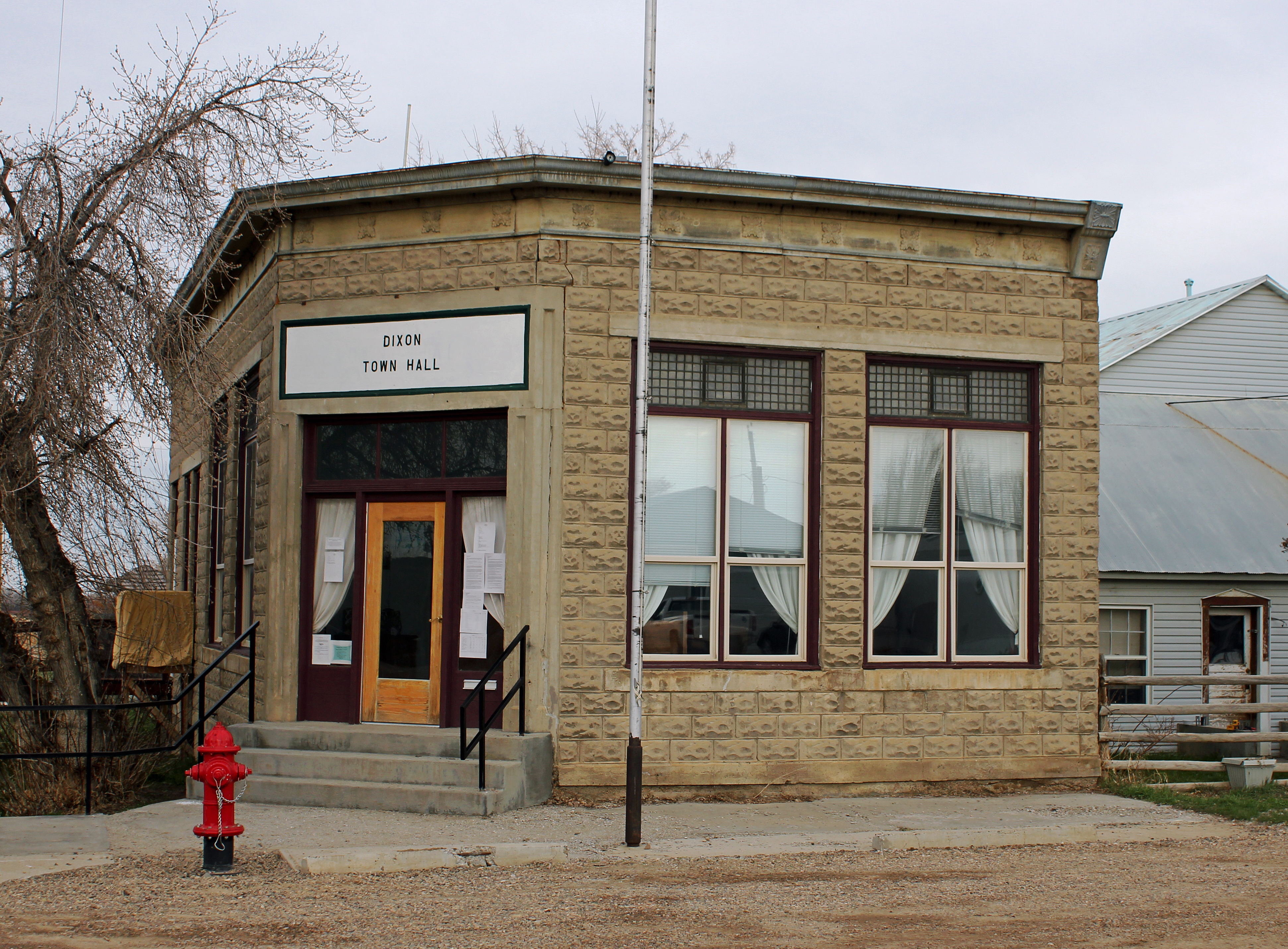 Stockgrowers Bank, located on North 3rd Street in Dixon, Wyoming. The property, now the Dixon Town Hall, is listed on the National Register of Historic Places.